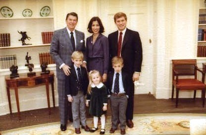 President Ronald Reagan. Glen Schleede, Sandra Schleede, Kim Schleede, Kendall Schleede, Kristen Schleede, Hilda Klafehn, David Stockman, Dan Quayle, Marilyn Quayle, Corrine Quayle, Benjamin Quayle, and Tucker Quayle